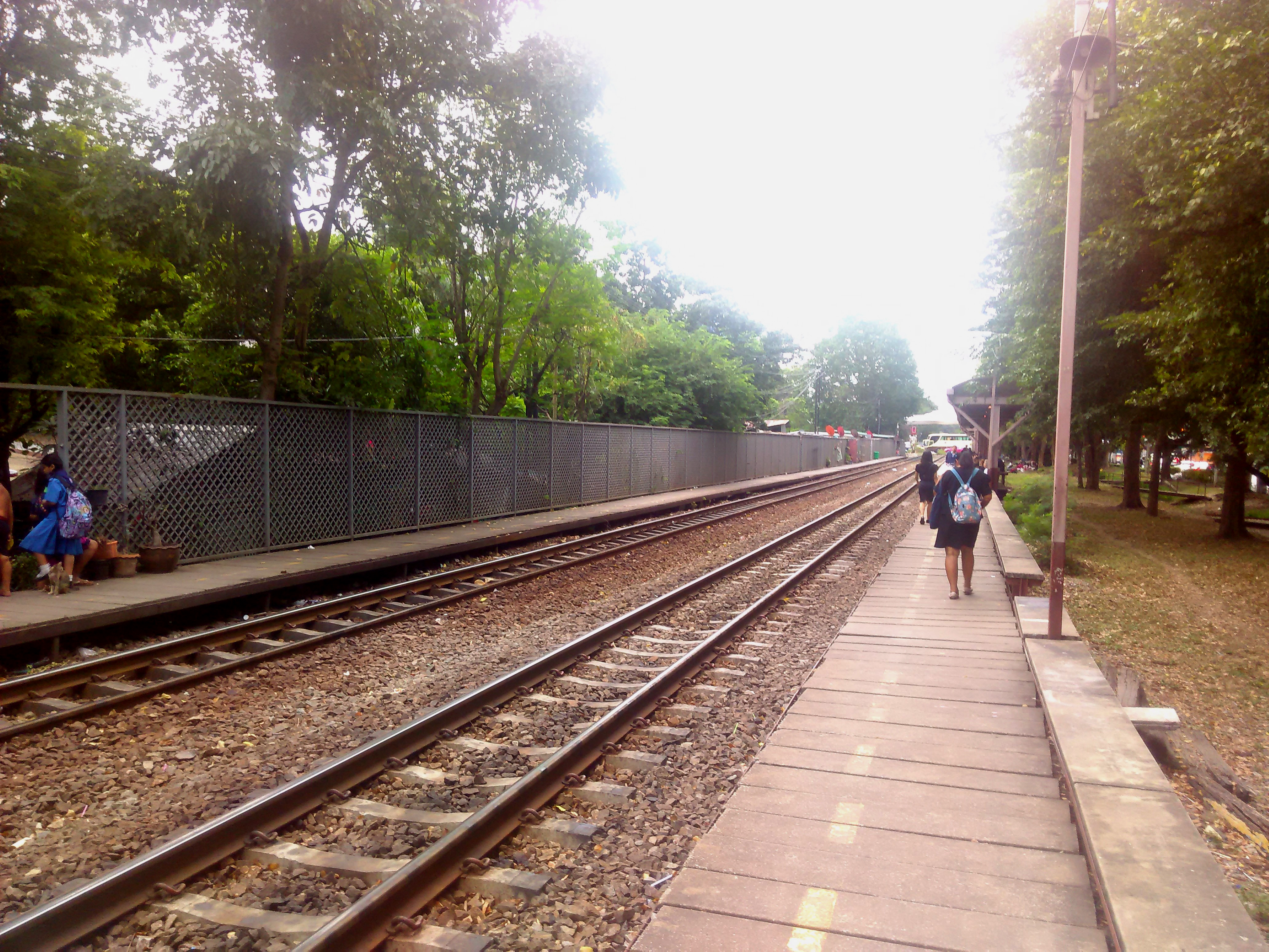 Yommarat Railway Station